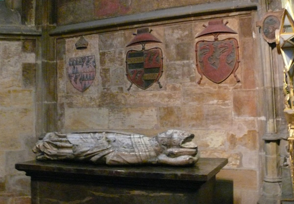 Jan Očko of Vlašim